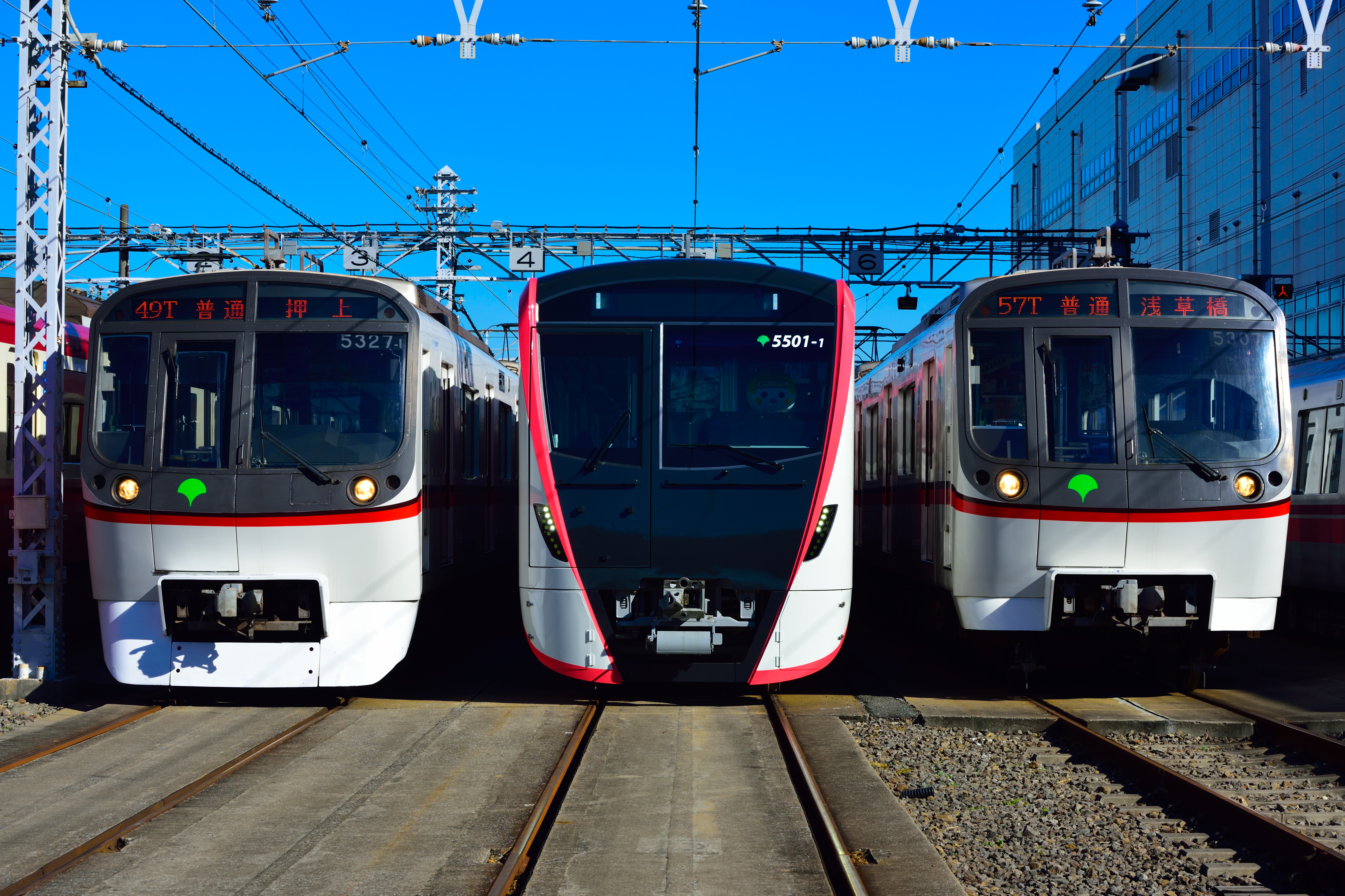 Toei 5300 and 5500 series EMUs at the annual Toei Festa open day event held at Magome Depot in Ota-ku, Tokyo, Japan